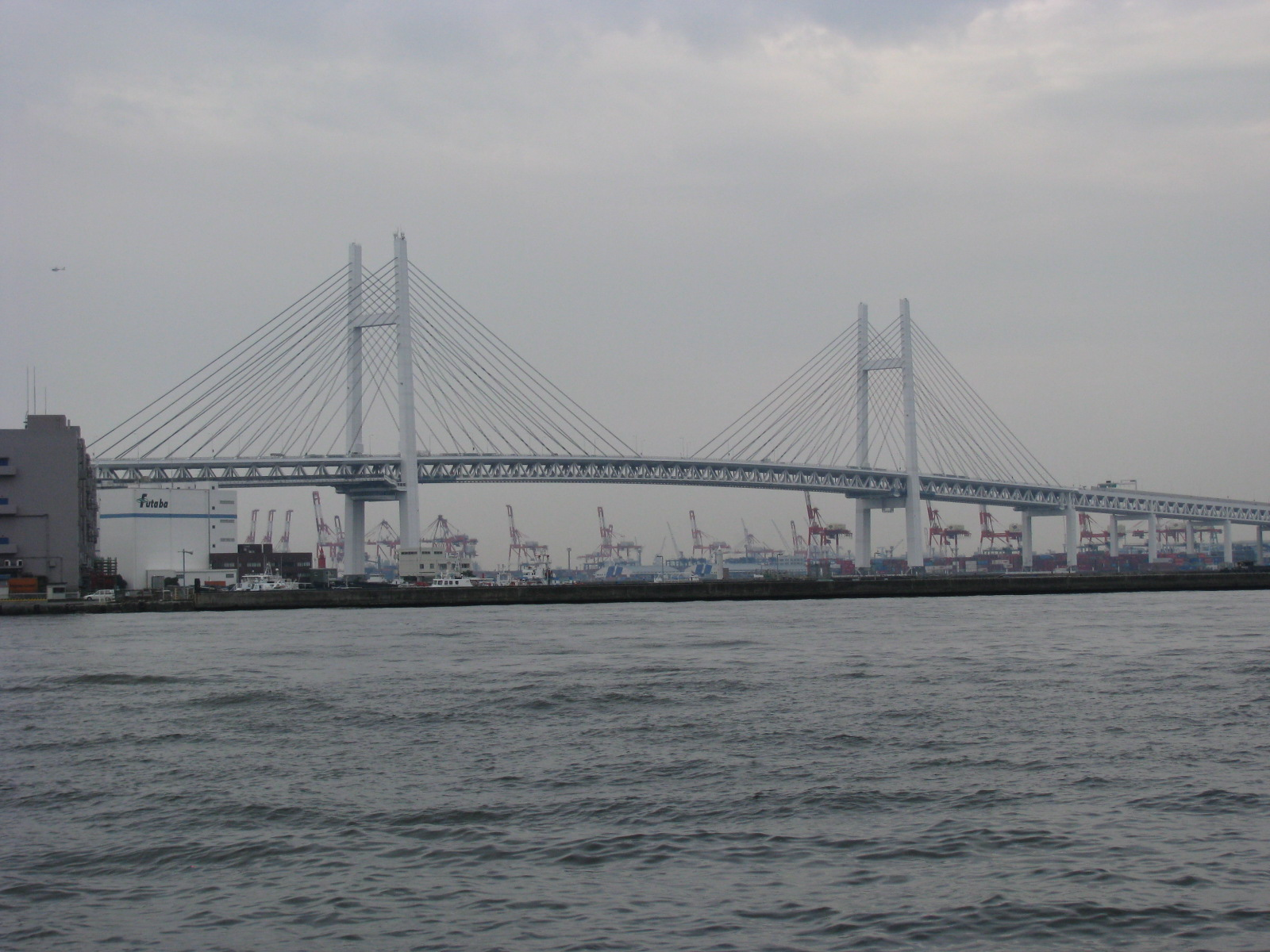 Yokohama Baybridge